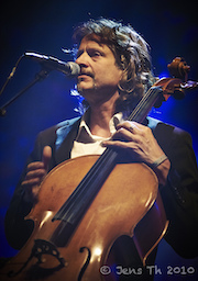 In 2010, Ray played cello, bass and was harmony singer with Oysterband.